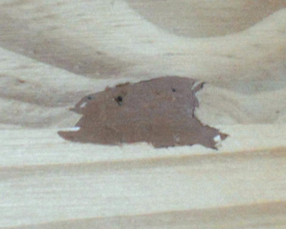 Bark on board, defect in timber